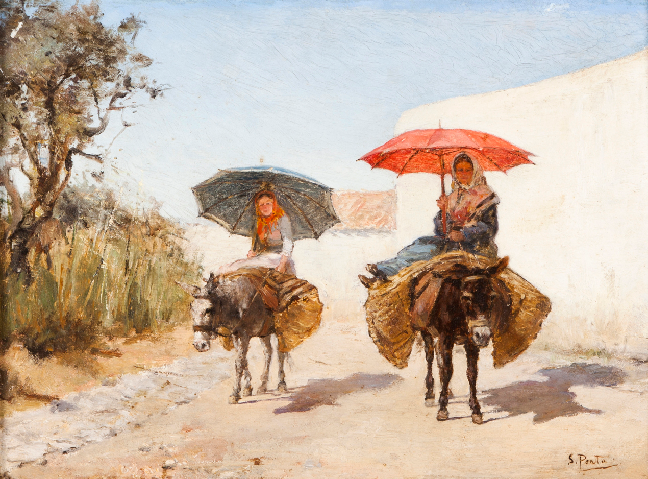 "Saloias", by António da Silva Porto.